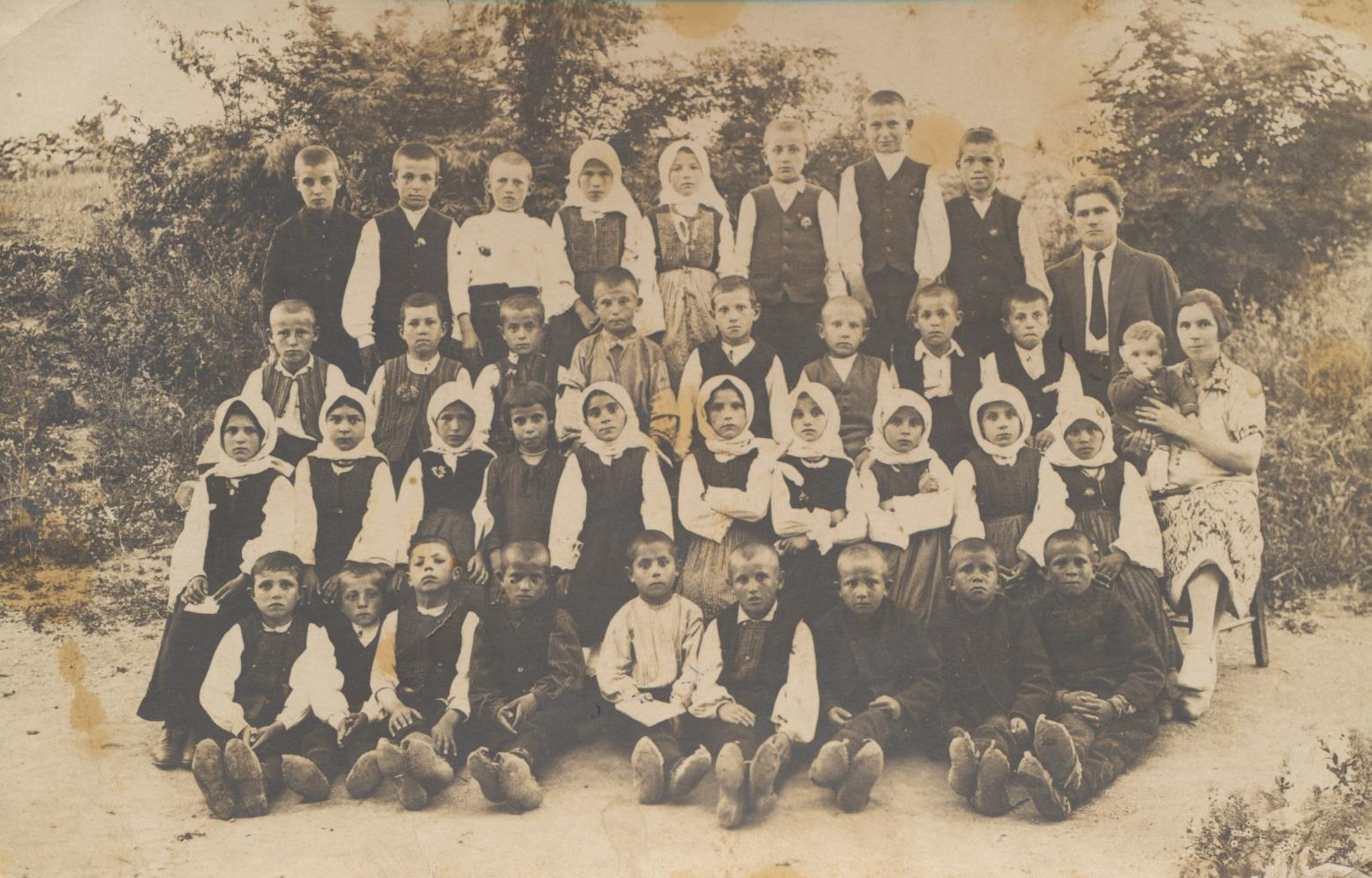 Pupils from village Gnjilan